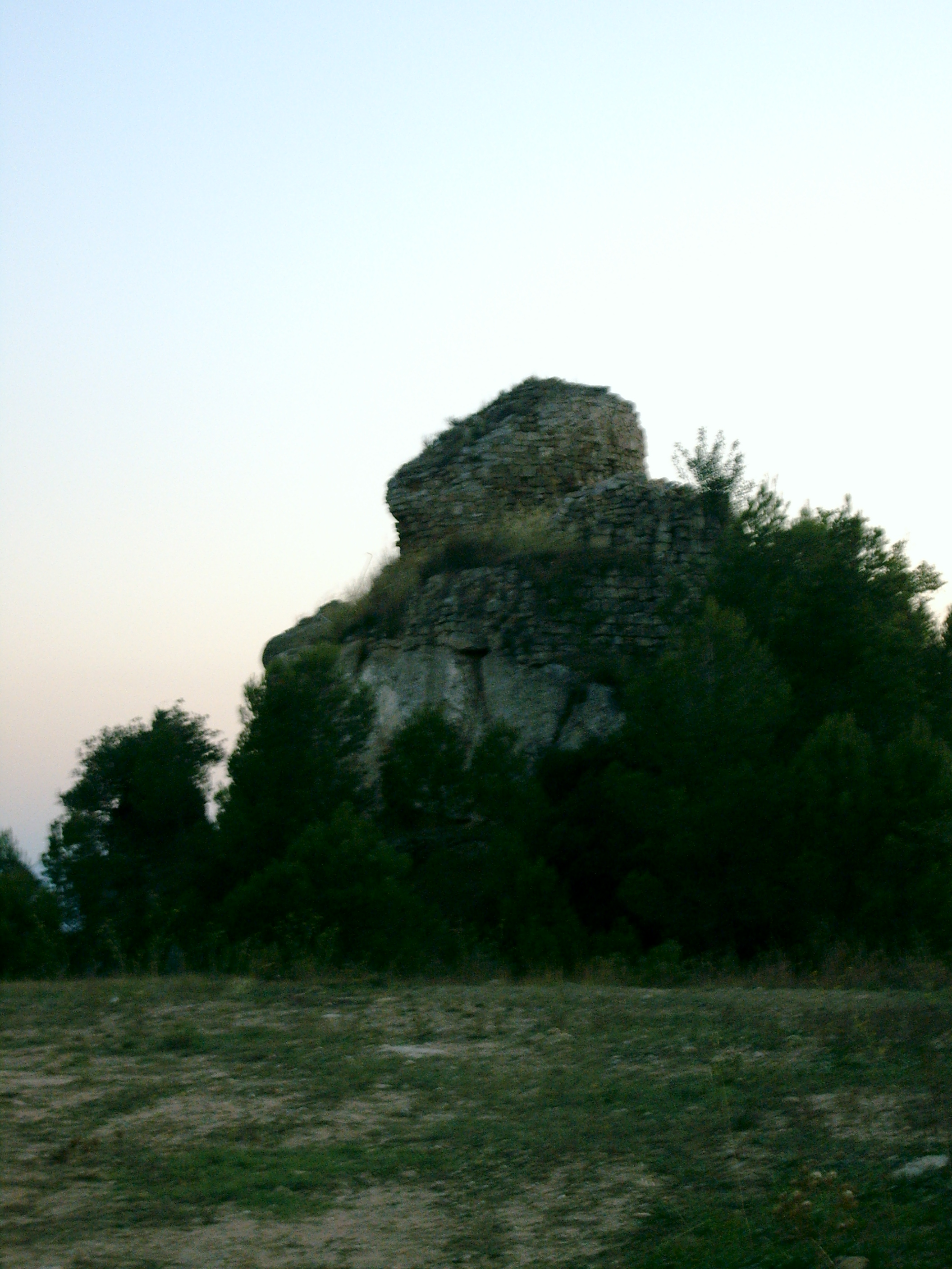 It's a photo about Castell de Rubió.